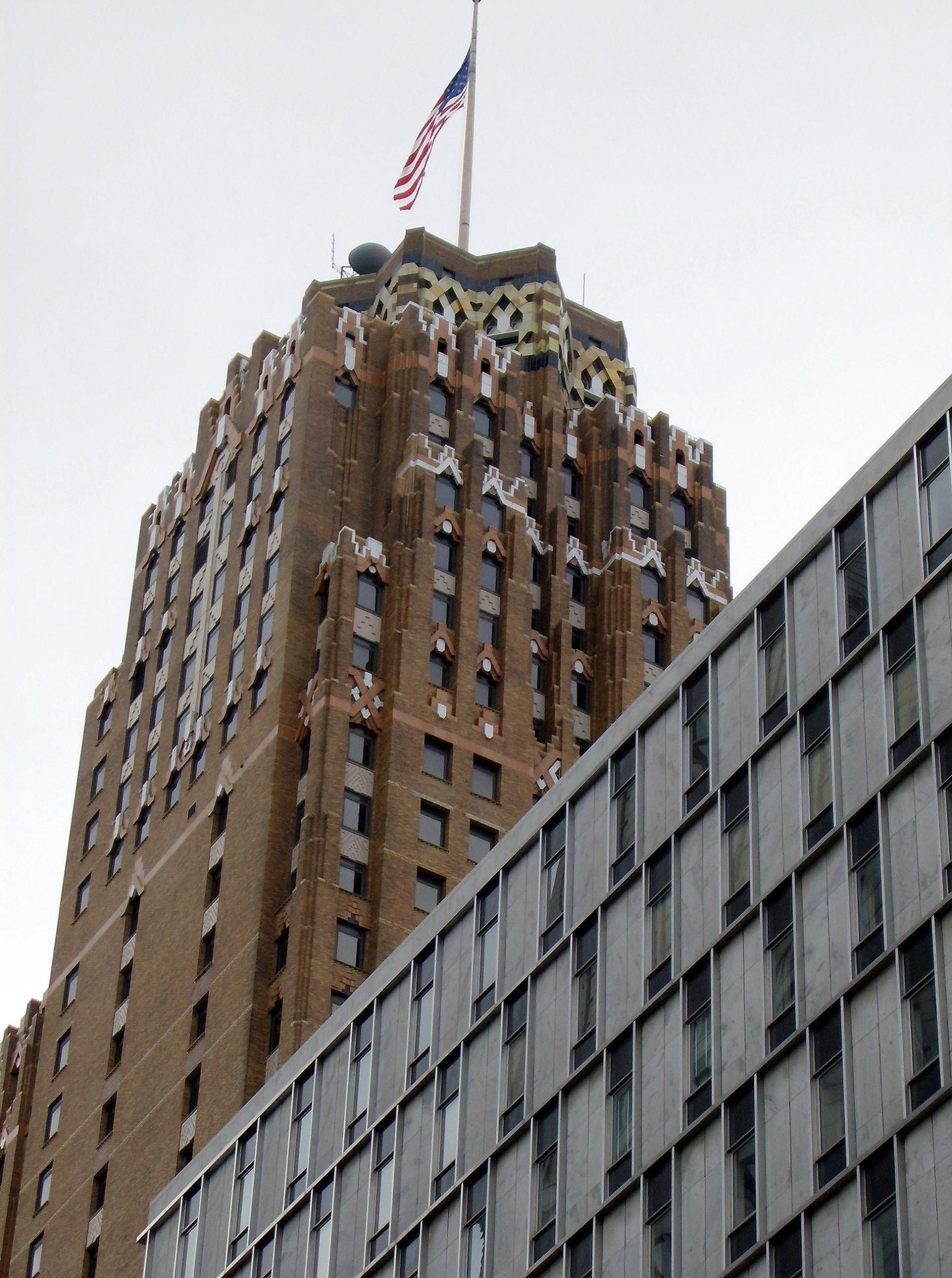 The Guardian Building in Detroit, Michigan, United States.